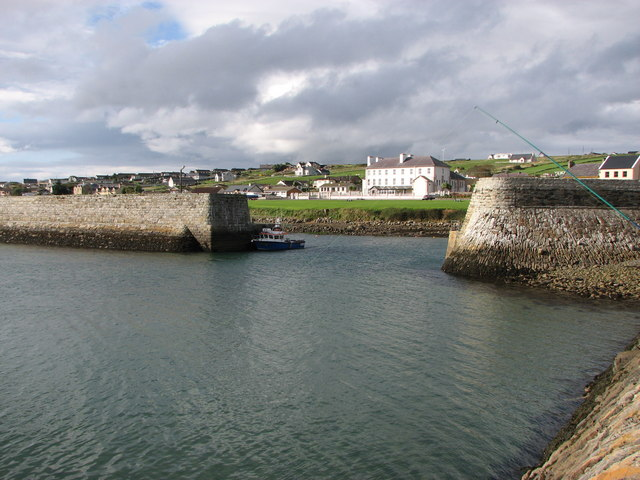 Entrance, Mullaghmore harbour Looking back into the harbour from the new pier.